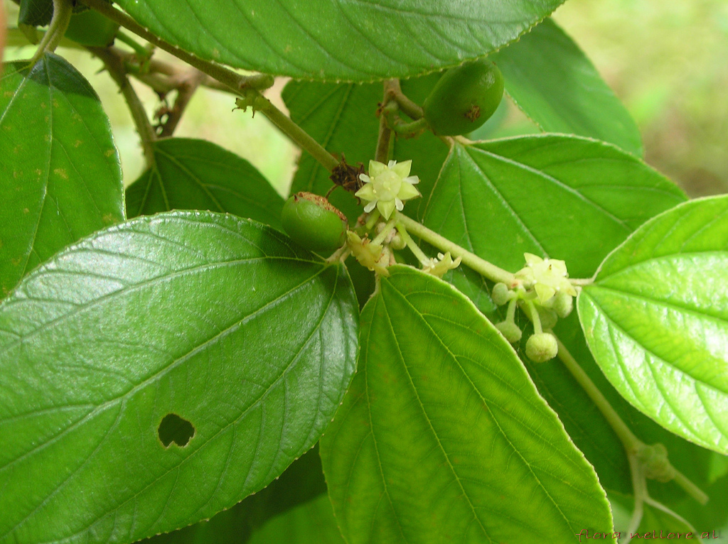 Family: Rhamnaceae Distribution: Common in scrubs and also cultivated for fruits. Native of Indian subcontinent and now widely cultivated in tropics. Photographed at Eastren ghats of A.P India. 3-5mts tall armed shrubs. Leaves3-5x1-3cm broadly elliptic-ovate, faintly denticulate, rouded or retuse, base oblique, tomentose beneath.Flowers 3-4mm across, creamy yellow in small axillary fascicles.Calyx lobes 5, triangular, petals 0, stamens 5, anther lobes white, disc 5 lobed, ovary 1 celled.Drupes, orrange red, 1-2cm in diameter globose or ovoid.Seed stony. Ripe fruits are eaten, dried leaves used for hair wash, stem bark for tanning. Reference: Flora of Nellore district by B.Suryanarayana and A.S.Rao, ENVIS, efloras Flora of Madras Presidency by J.S.Gamble.